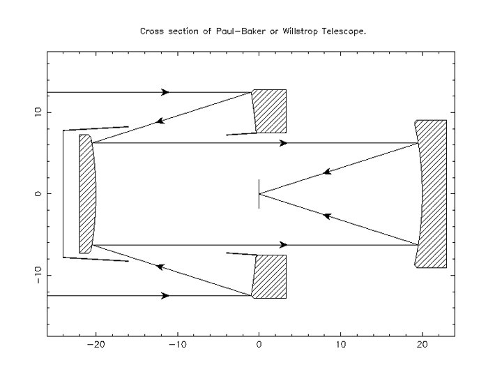 The light path and mirrors of a Paul-Baker telescope, an example of a three-mirror anastigmat.